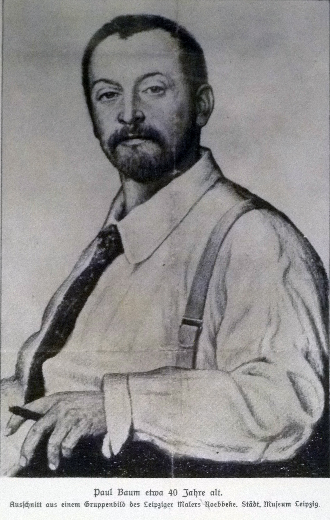 "Paul Baum age 40"